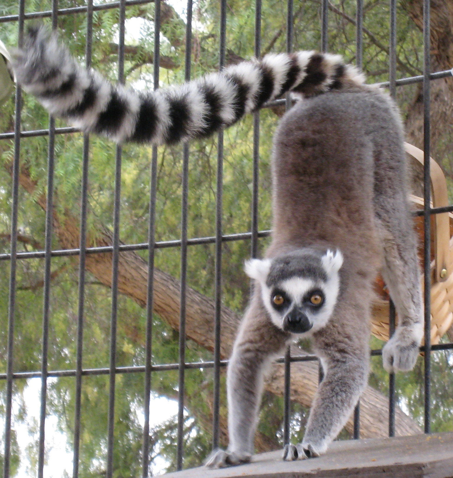 Ring-tailed Lemur (Lemur catta) scent-marking using perianal glands, taken at America's Teaching Zoo at Moorpark College ID: Lenny (a.k.a. "Obi"), Stud book #: 2353